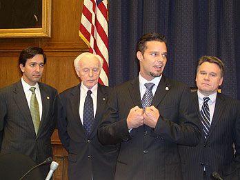 Ricky Martin (second from right) meets with members of the United States House of Representatives including Luis Fortuño (far left), Tom Lantos (D-California) (second from left) and Chris Smith (right)